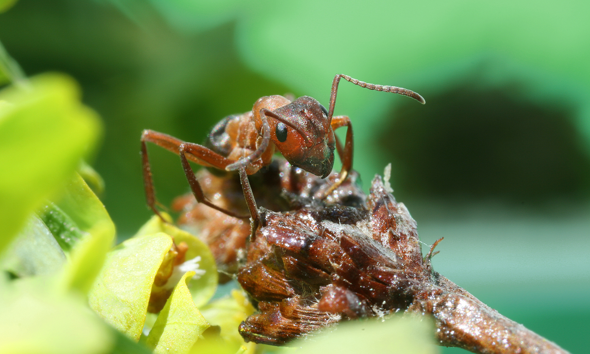 Description: Makroshot of the Head of a Formica rufa